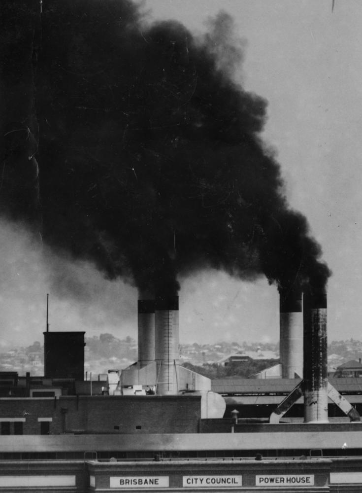 Smoke pours from the New Farm Power House, 1952 Smoke pouring from the New Farm Power House caused numerous complaints from residents. (Description supplied with photograph.).